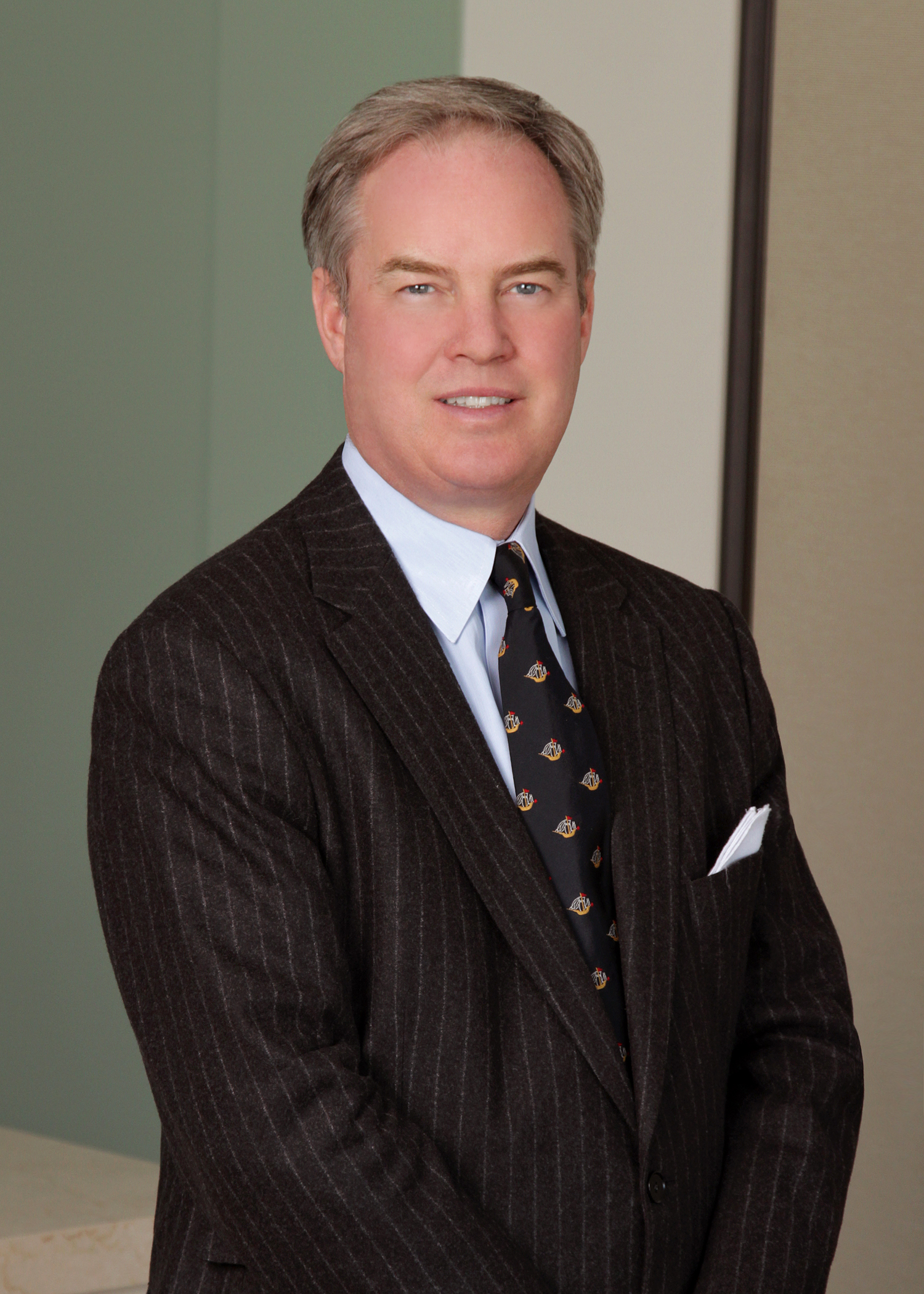 a photo of Trevor Potter